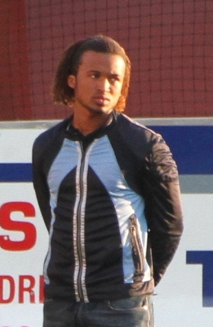 Strømmen IF player, having signed for the club on August 25, 2012. Strømmen stadium, Akershus, Norway.